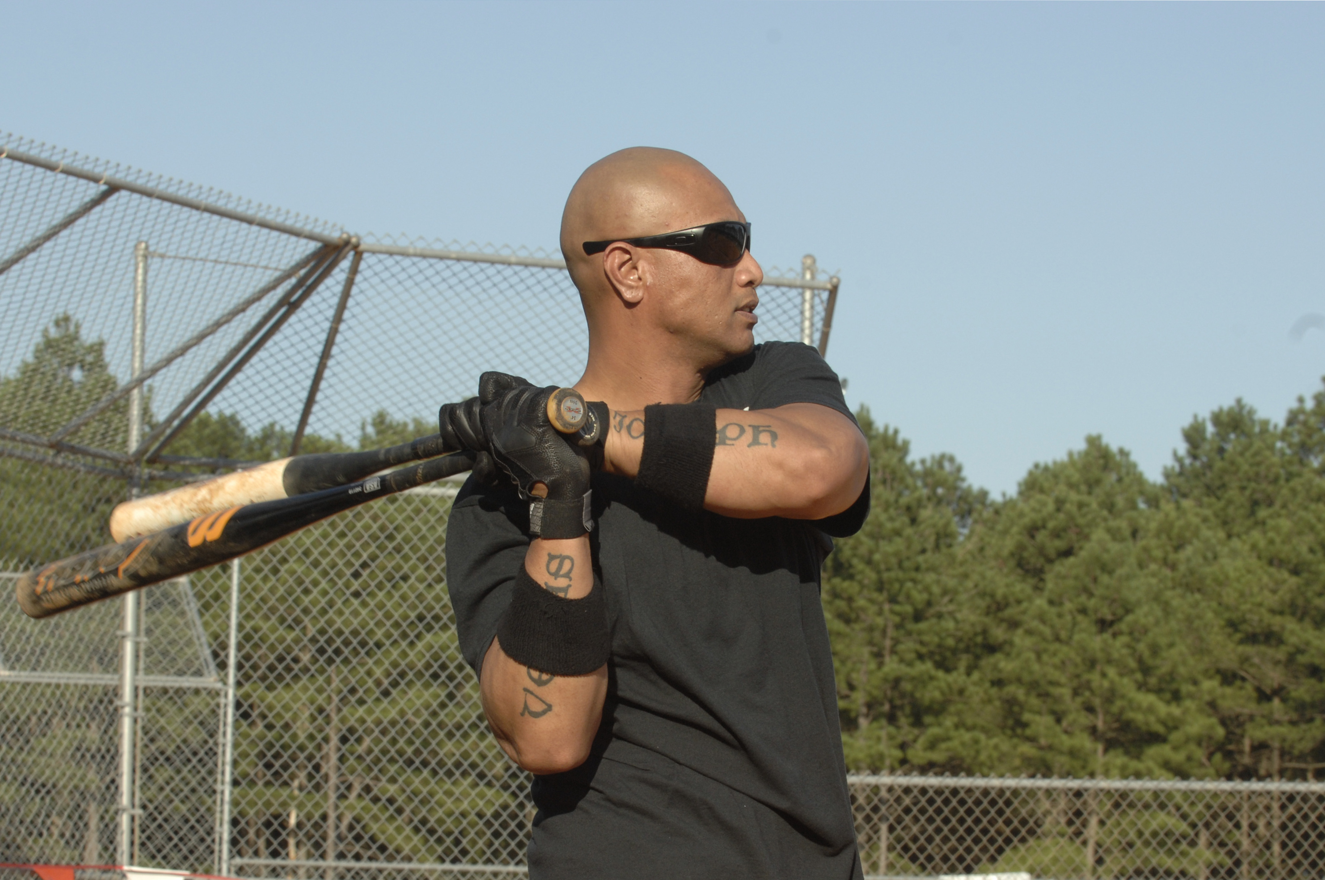 Tech Sgt. Frank Mamea, 20th Security Forces Squadron flight chief and a native of Long Beach, Calif., swings two bats to warm up before stepping up to the plate during a softball game at Shaw Air Force Base, S.C., June 27, 2012. 20th SFS played against 20th Medical Group and 20th SFS won 15-11.